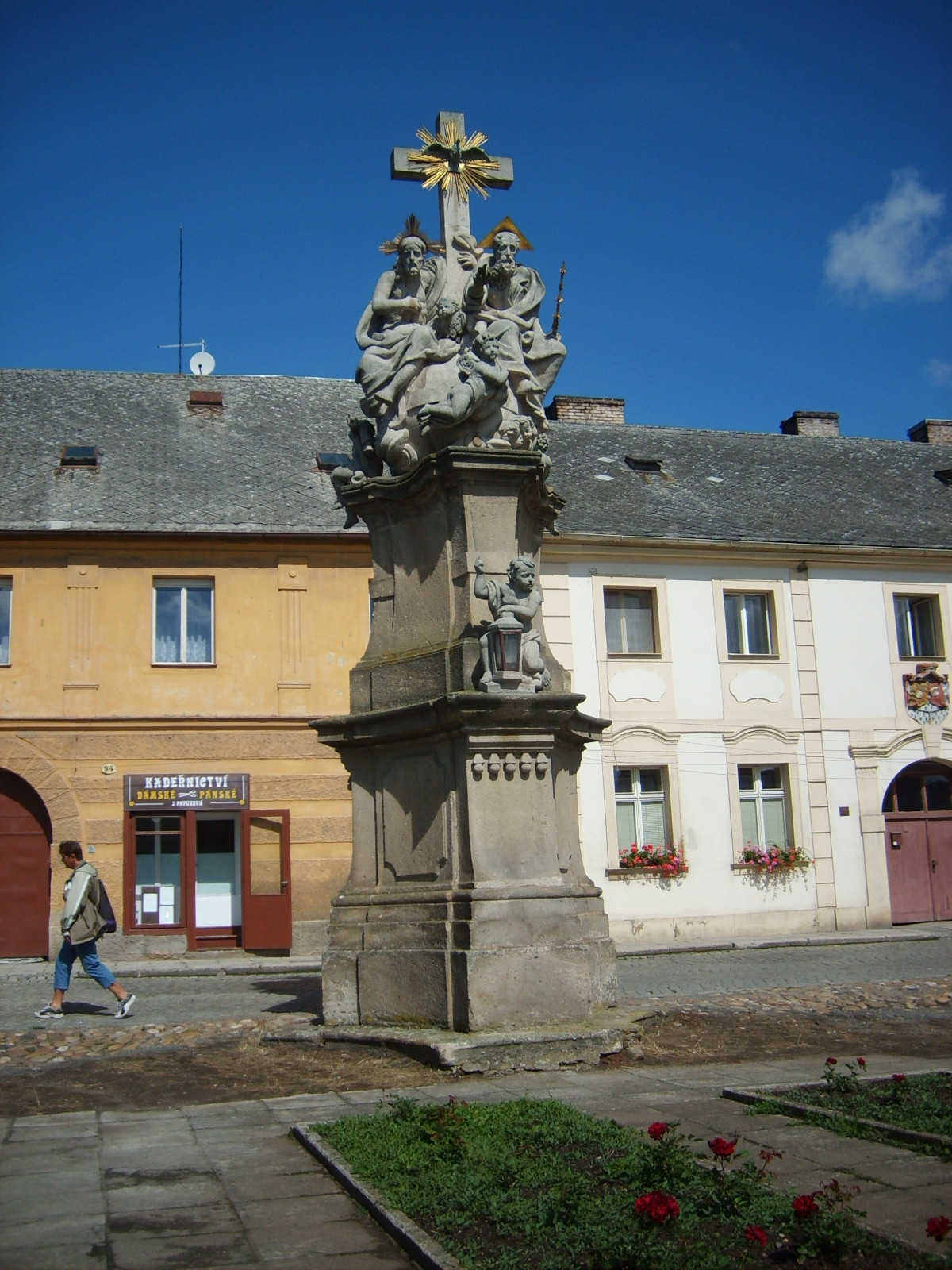 Holy Trinity sculpture from 1719 in town square of Manětín.